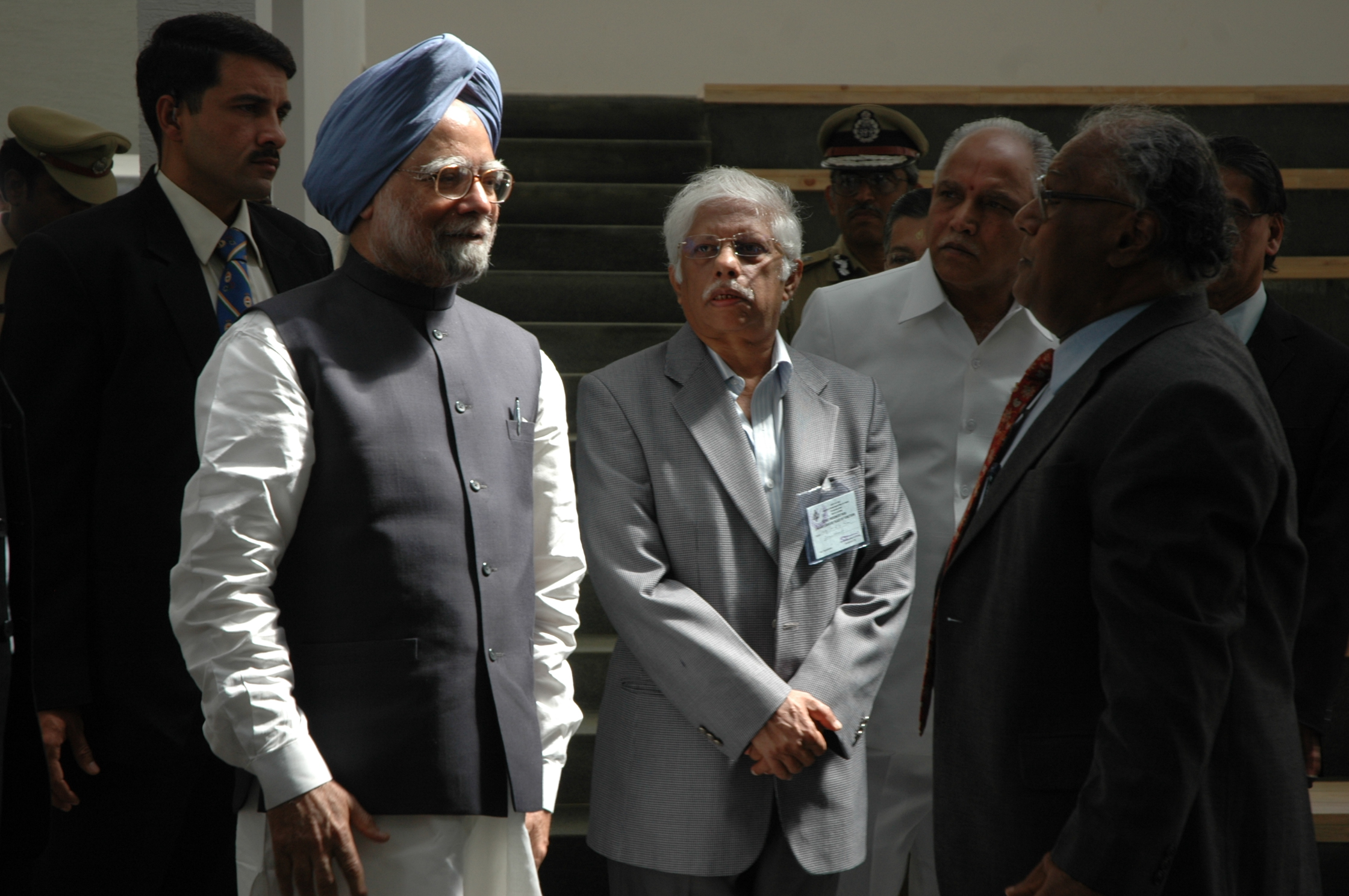 This picture was taken at JNCASR, Bangalore on 03-12-2008 when Dr Manmohan Singh had visited the institute to inaugurate ICMS and I-House building. From Left to Right are, Dr Manmohan Singh, Prof MRS Rao, B. S. Yeddyurappa and Prof CNR Rao